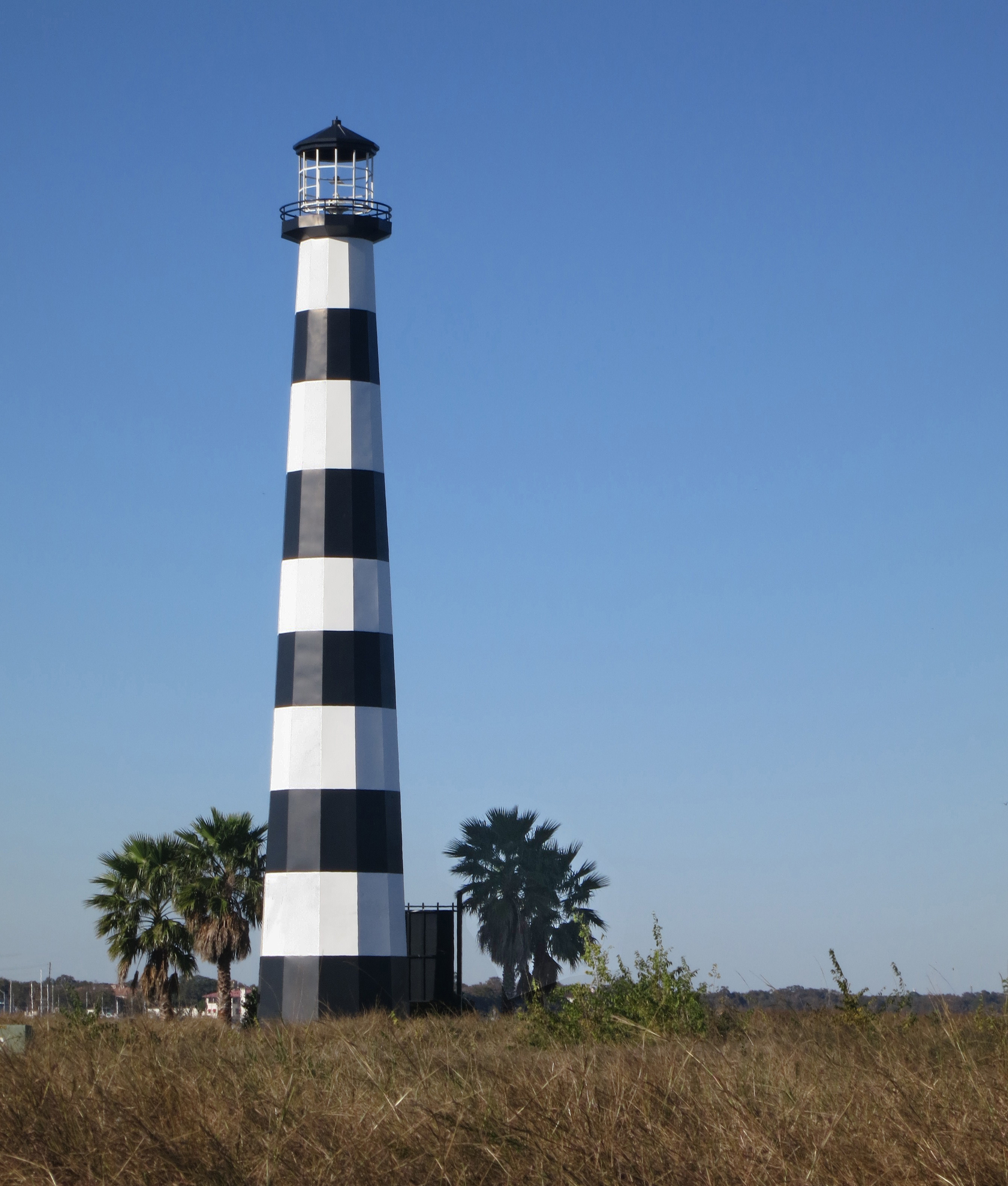 Faux Lighthouse at South Shore Harbor -- League City, Texas